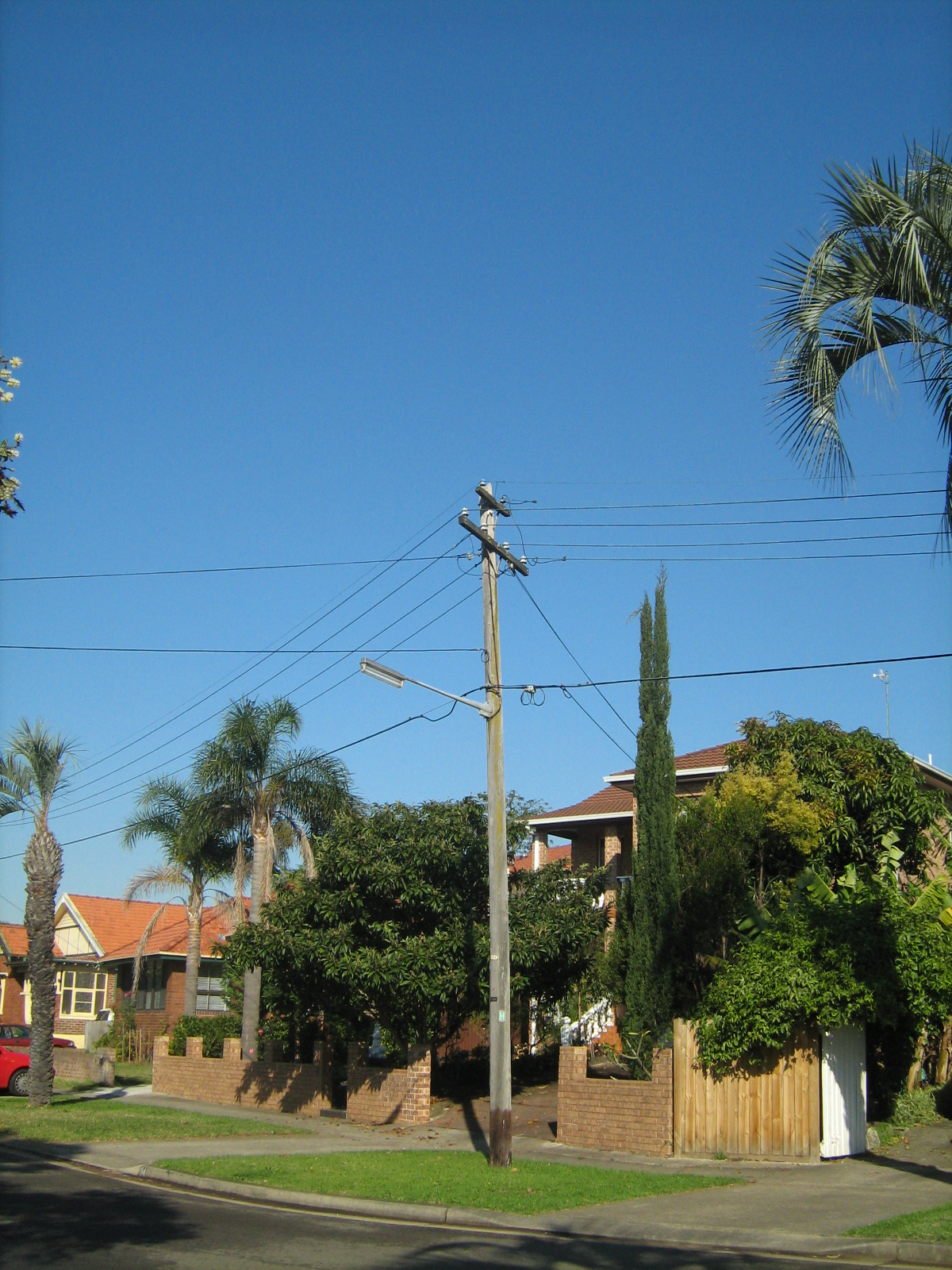 This is a typical fluorescent street light found in residential areas of Sydney, NSW, Australia. This fixture is still relatively common, however, they are currently replaced by more energy efficient Sylvania lights as part of a Sydney wide upgrading program. Date taken: 25 May 2008.